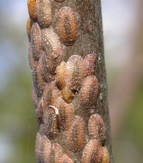 Some ladybirds are scale insects specialists (eg Chilocorinae). Bruxelles.